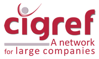 CIGREF english logo "a network for large companies"